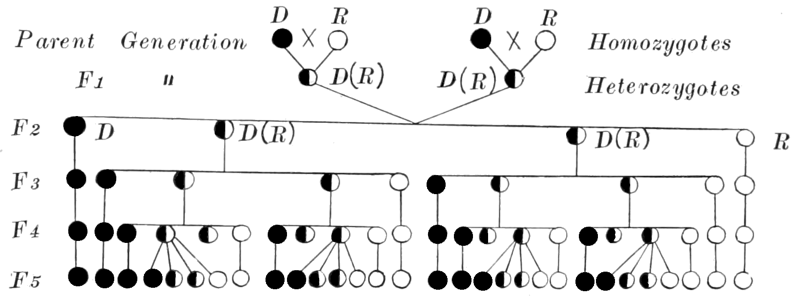 Mendelian splitting of pure dominants and recessives parents